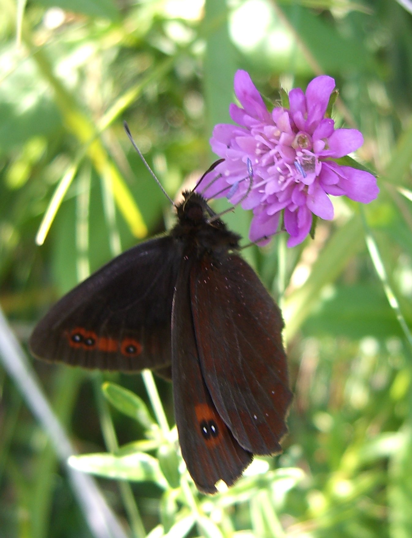 Description: Erebia aethiops